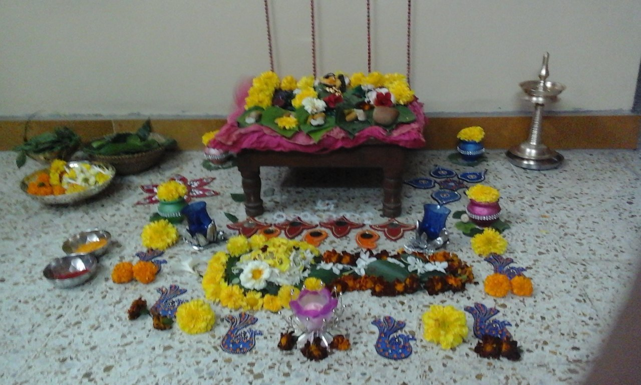 mangalagaur puja